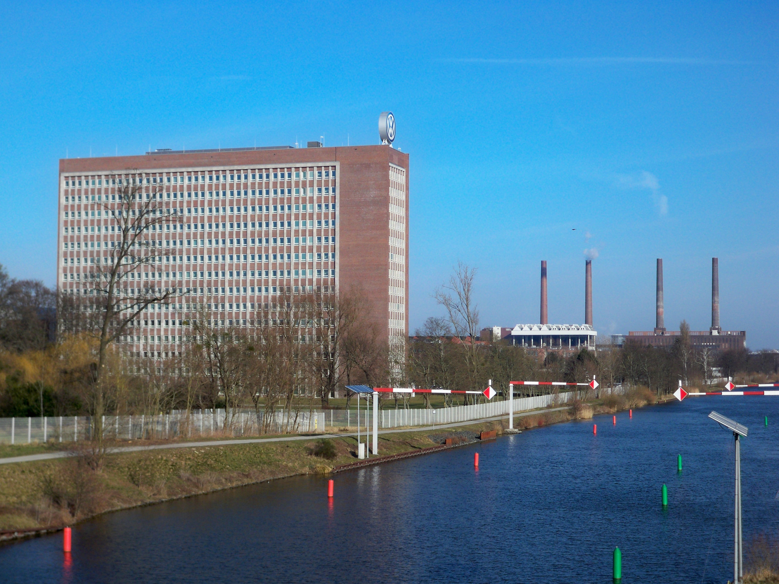 Wolfsburg, Lower Saxony, VW Markenhochhaus (left) and Power Station North/South (right) with Mittellandkanal